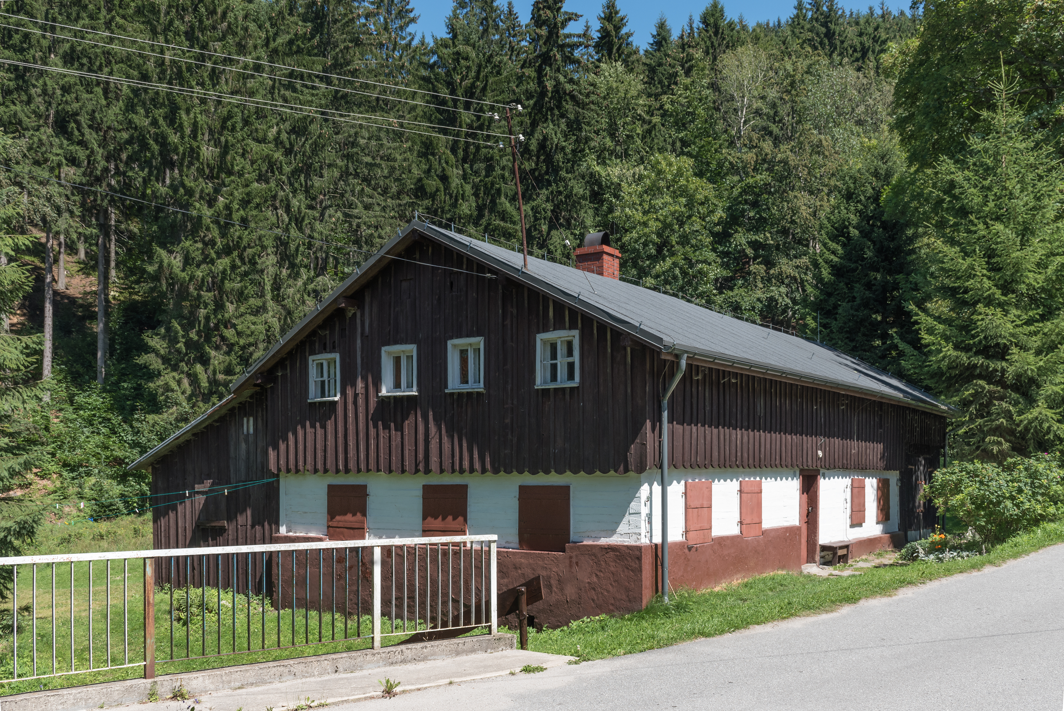 House No. 17 in Nowa Morawa